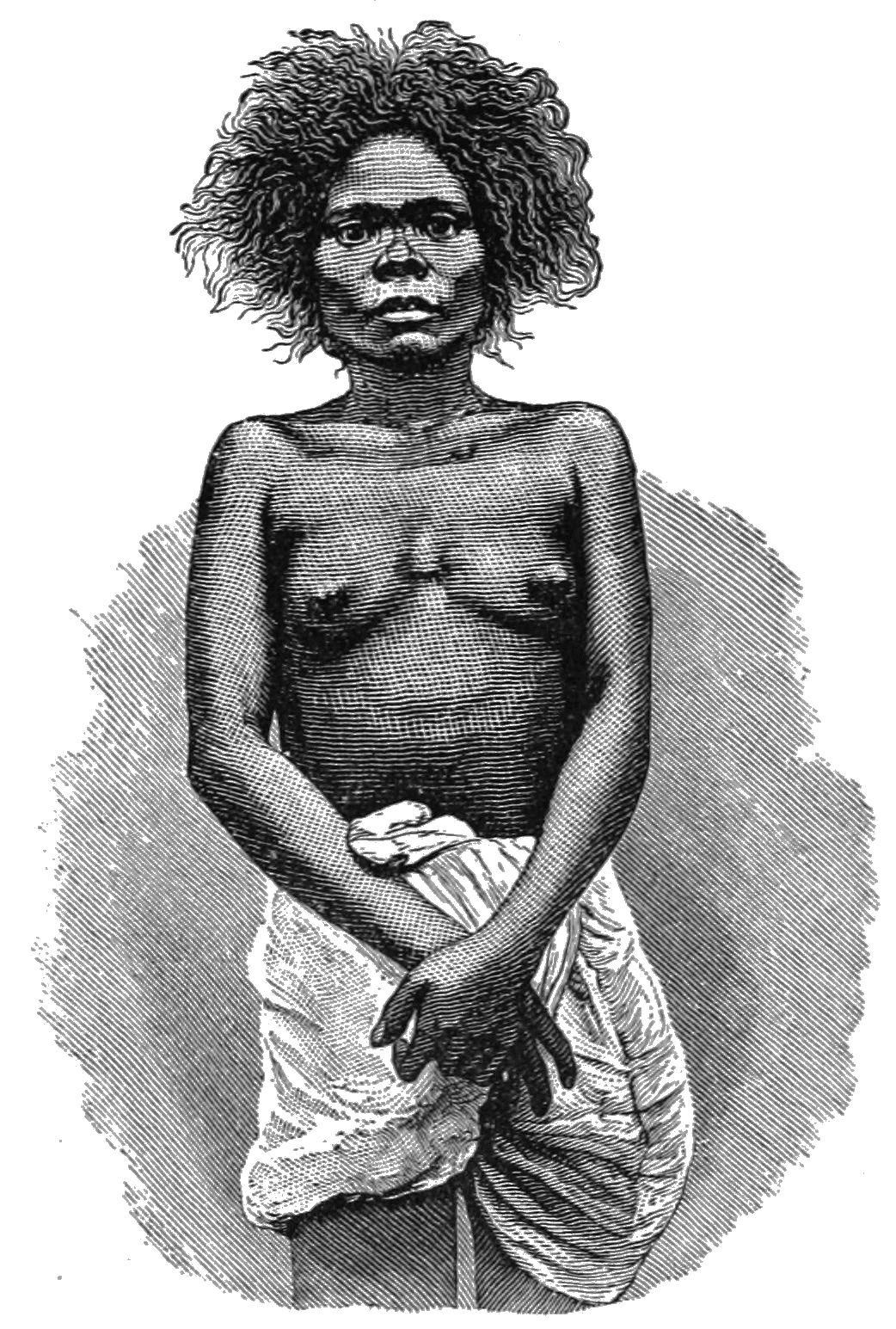 Aeta from the Phillipines